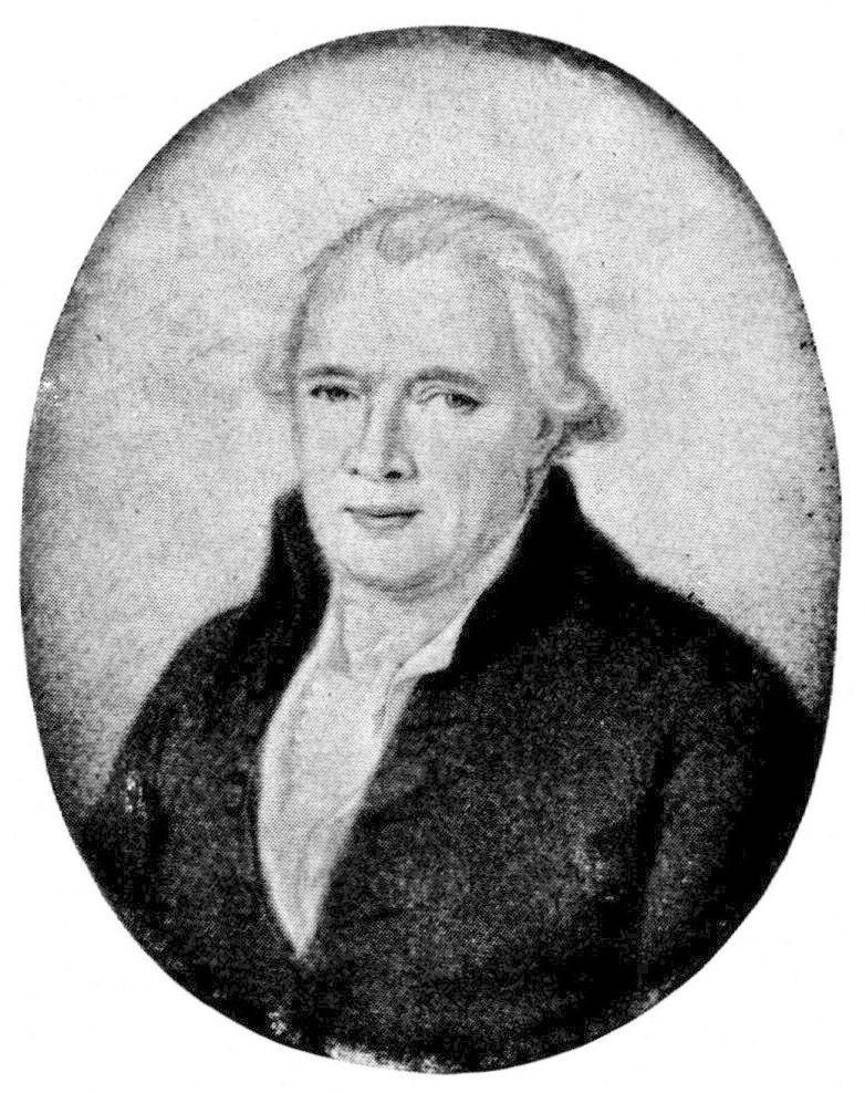 Finnish colonel Berndt Johan Hastfer (1737-1809).